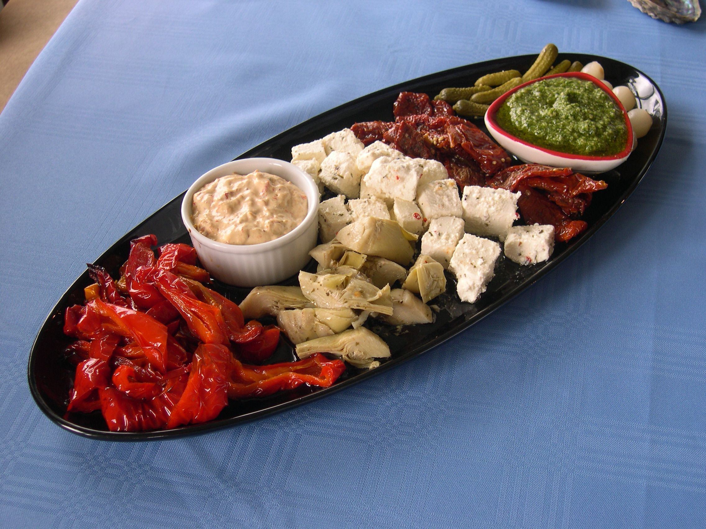 Image title: Antipasto food Image from Public domain images website